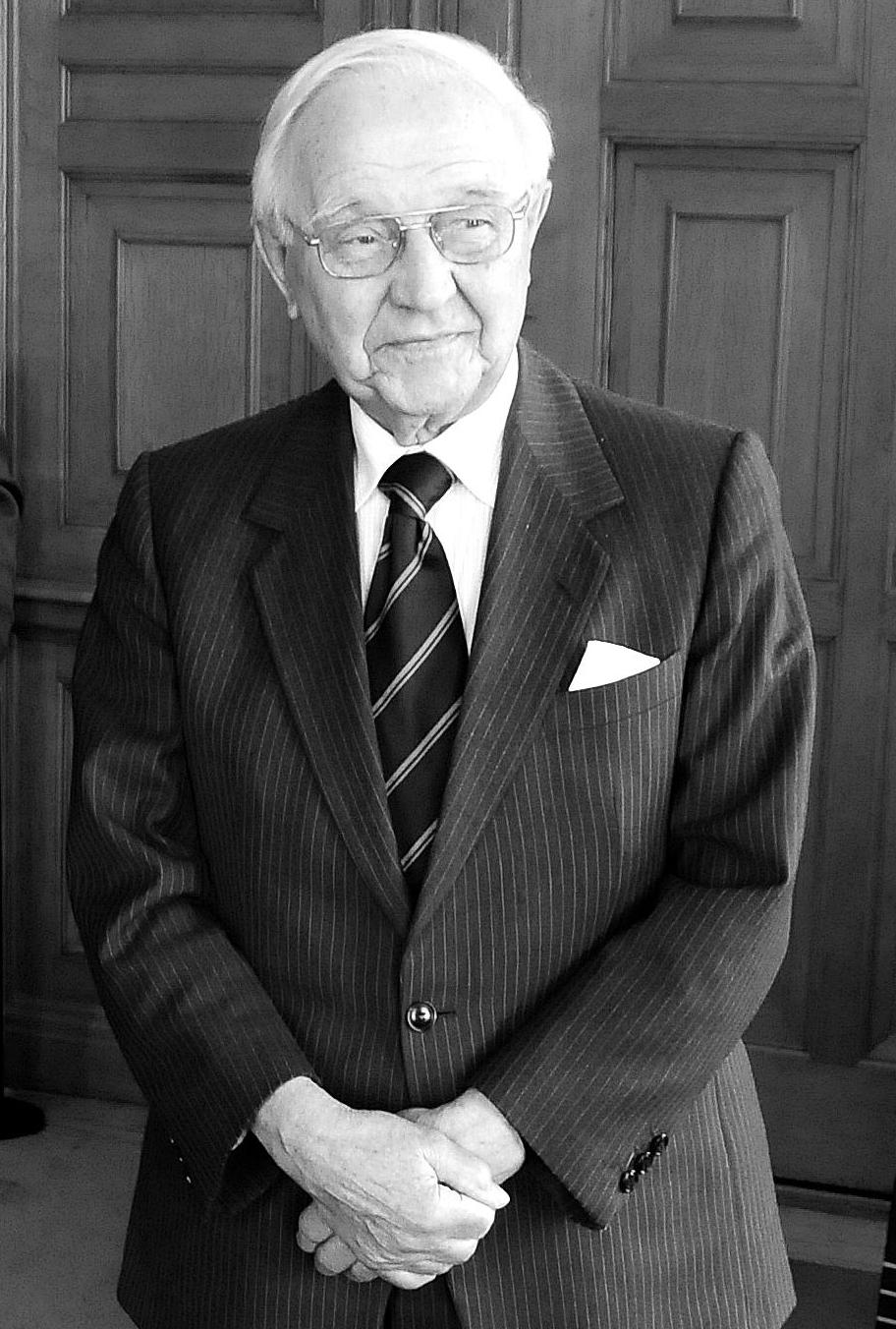 Minister-president Rutte ontvangt oud-premier De Jong in het Torentje om ervaringen uit te wisselen.